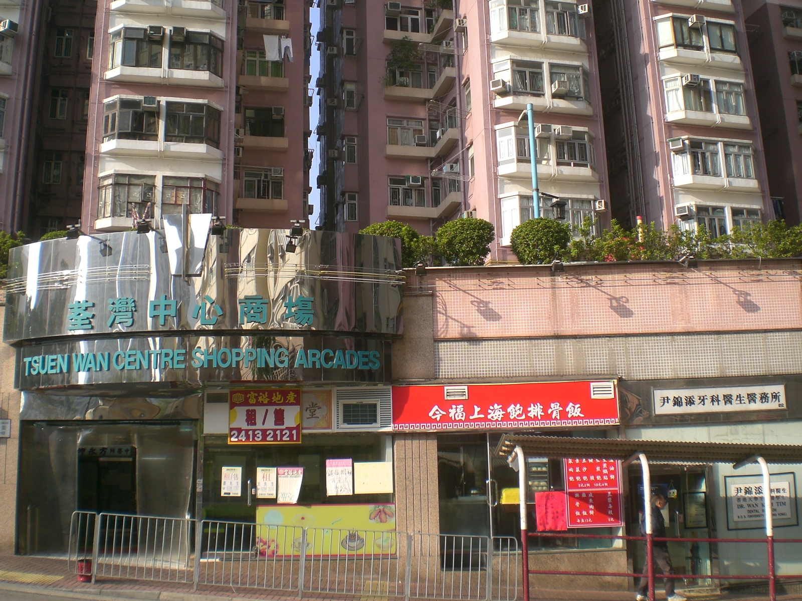 荃灣 荃景圍 荃灣中心 商場